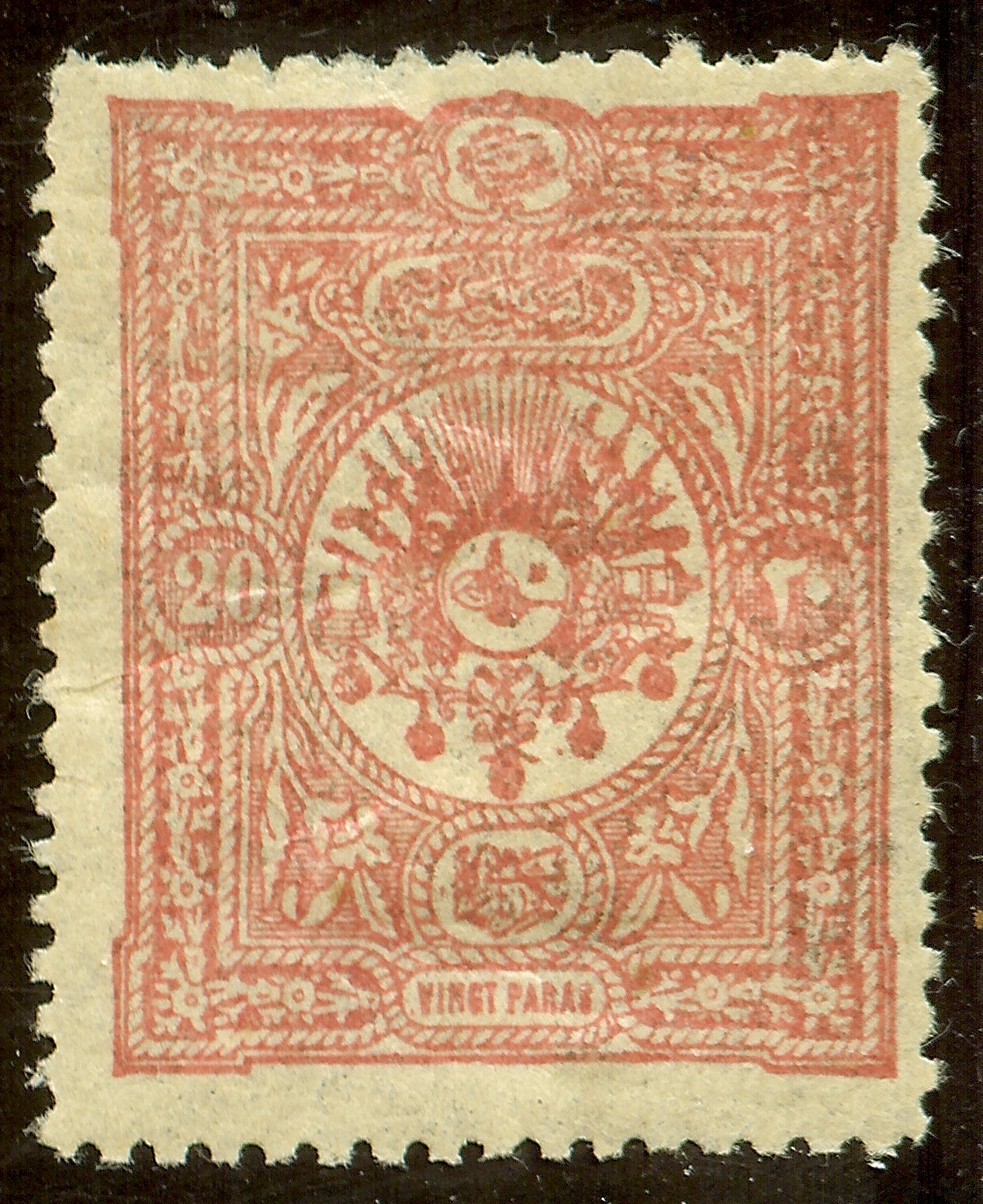 A 20 para stamp of Ottoman Empire, 1898, Scott Cat. no. 98a.